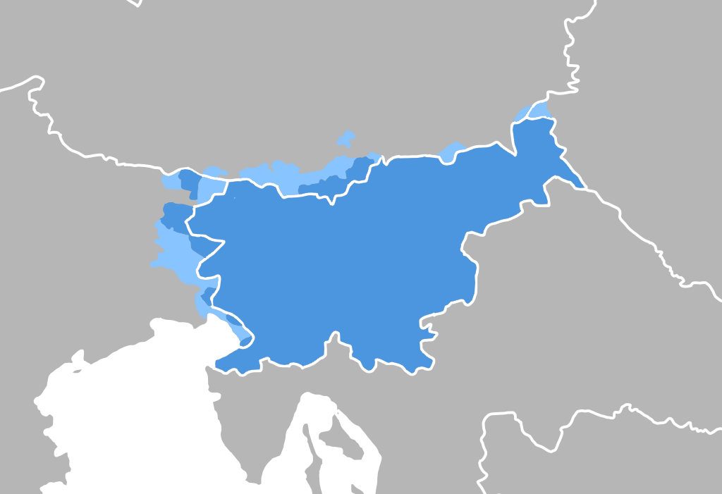 Map of the distribution of Slovenes in and around Slovenia